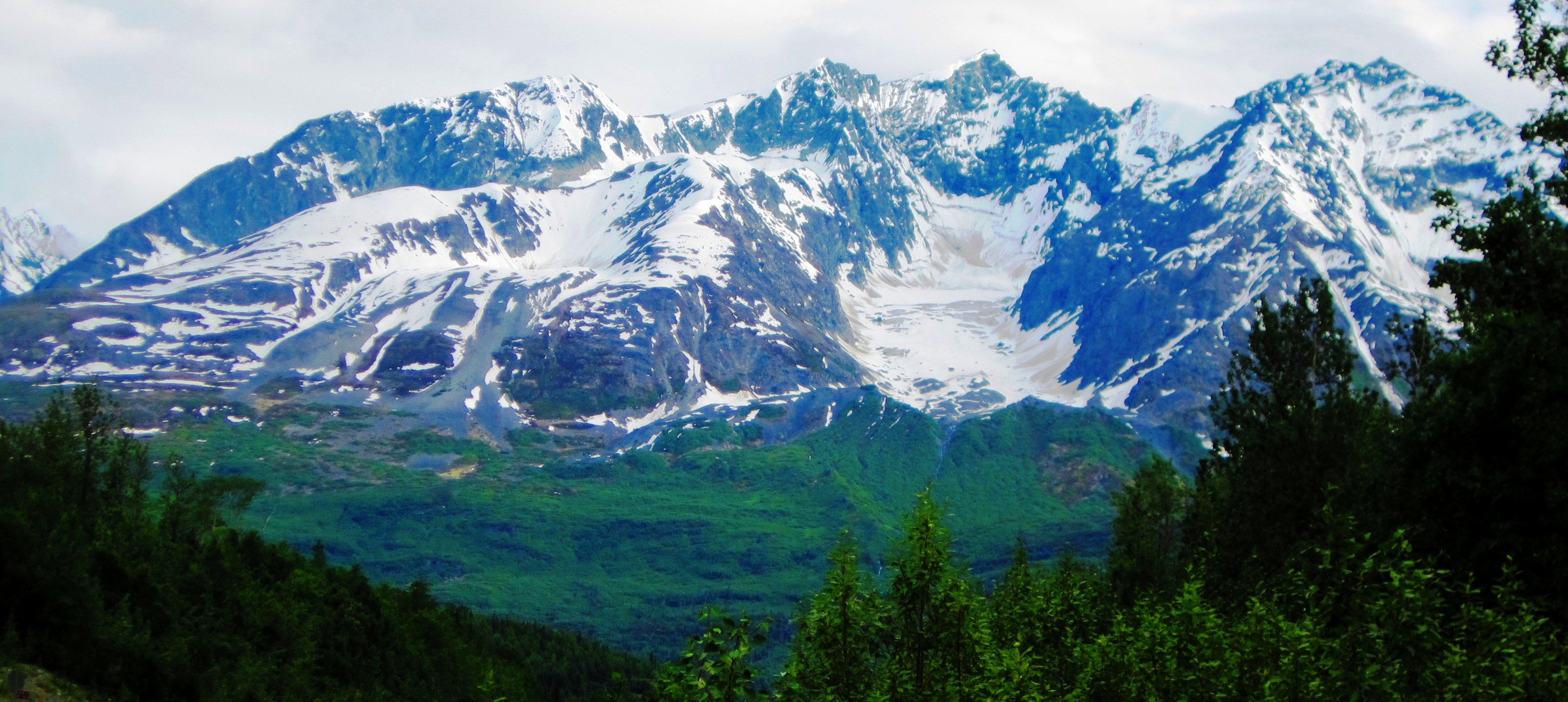 view of Mount Billy Mitchell from mile marker 48 along the southbound Richardson Highway, heading towards Thompson Pass